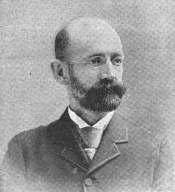 Edward J. Dunphy, Congressman from New York